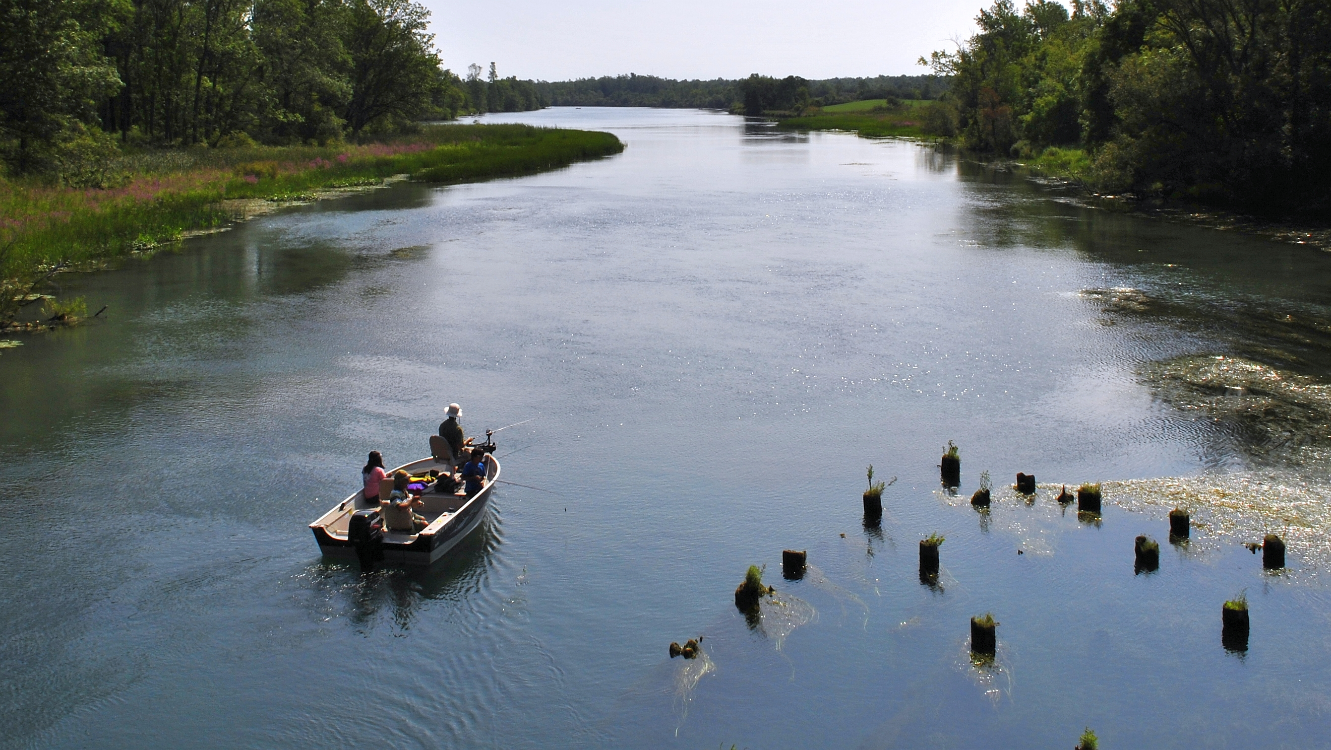 Boating on the Welland River west of the Niagara River.